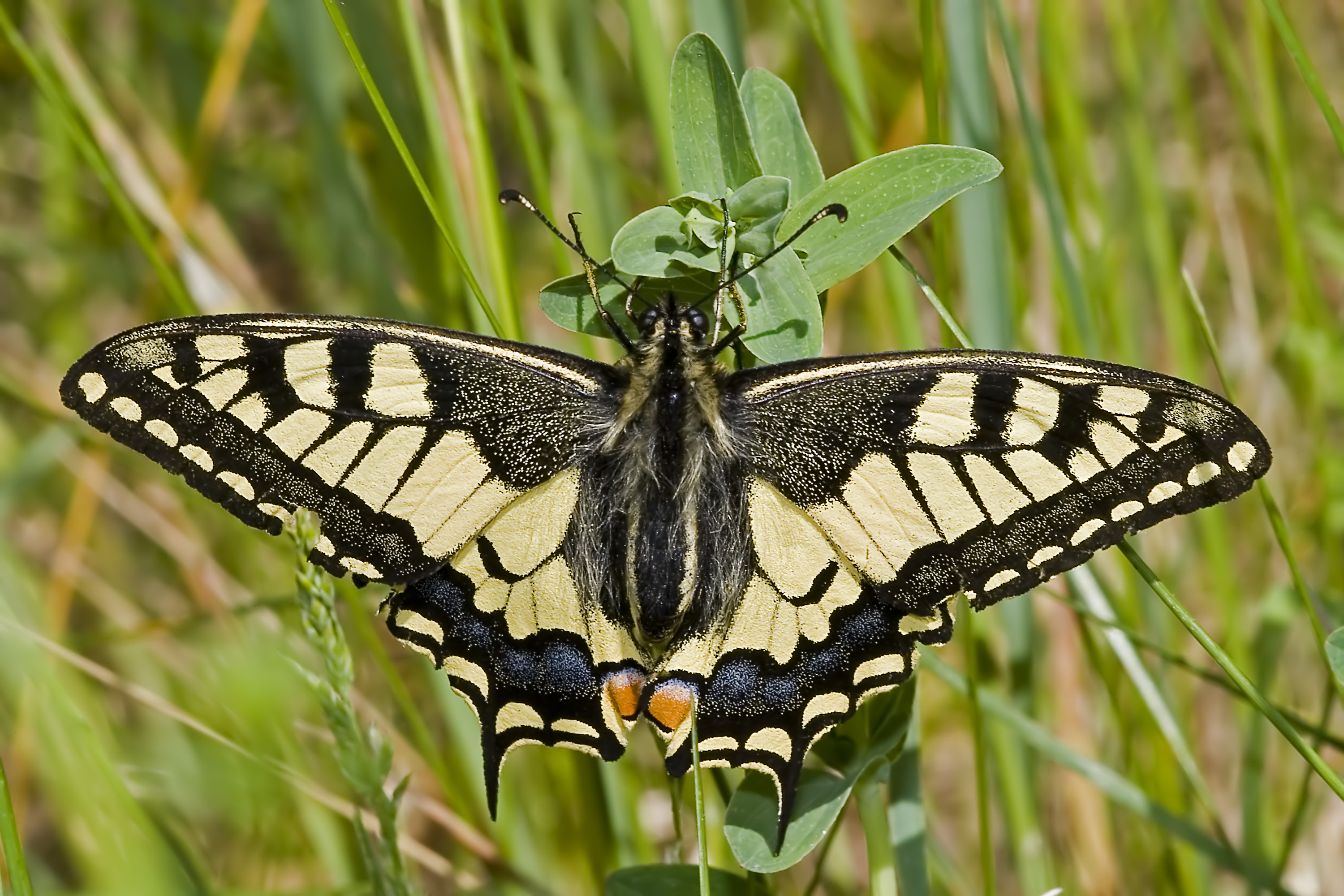 Swallowtail